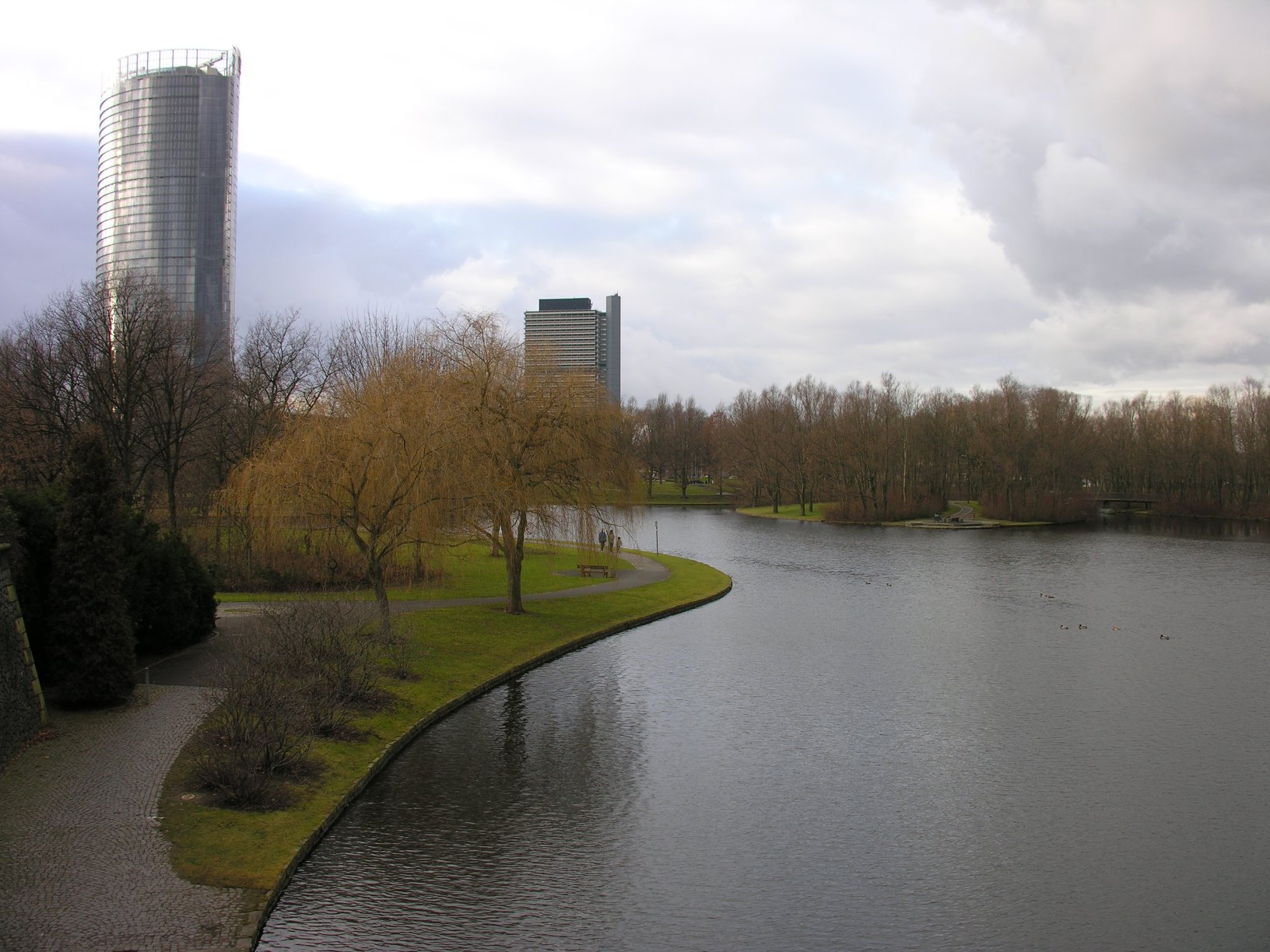 Lake of the Rheinaue Leisure Park in Bonn with Post Tower and Langer Eugen